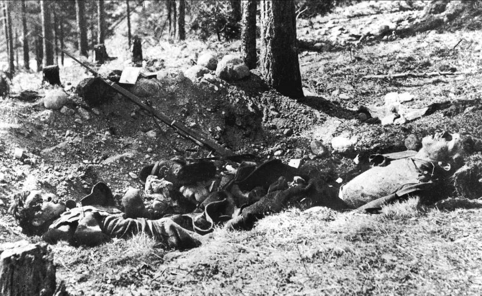 Fallen Red Guard fighters after the Battle of Lahti, 1918 Finnish Civil War.